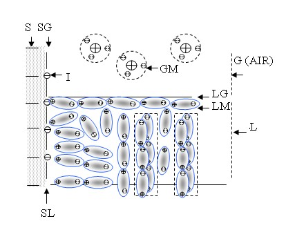 Molecular power 10. Interfacial surfaces at the boundary of solid, liquid and gas (air). Depicts interfacial surfaces at the boundary of solid, liquid and gas (air)